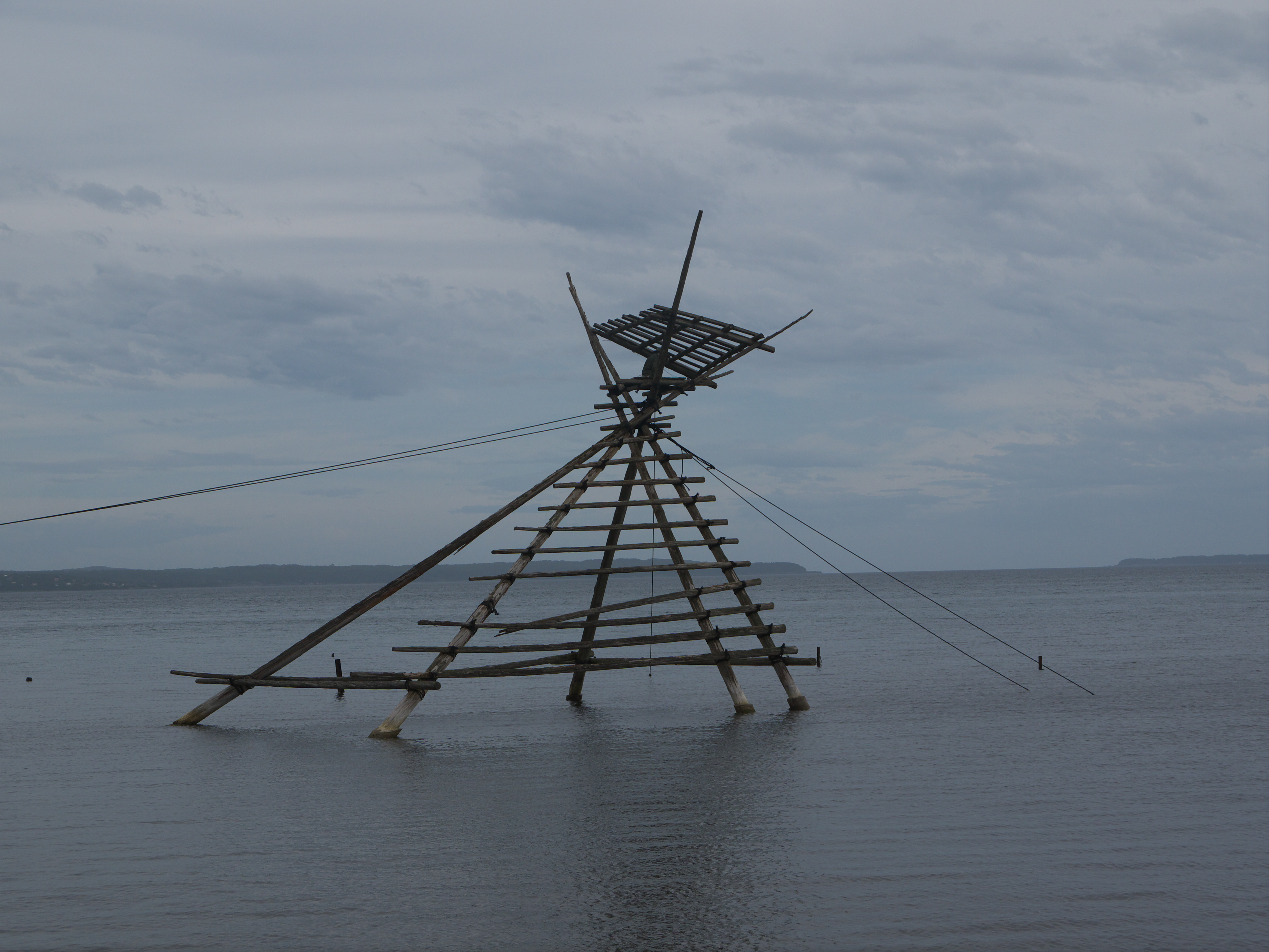 Boramachi-Yagura, a wooden tower, symbol for a old fishing technique.